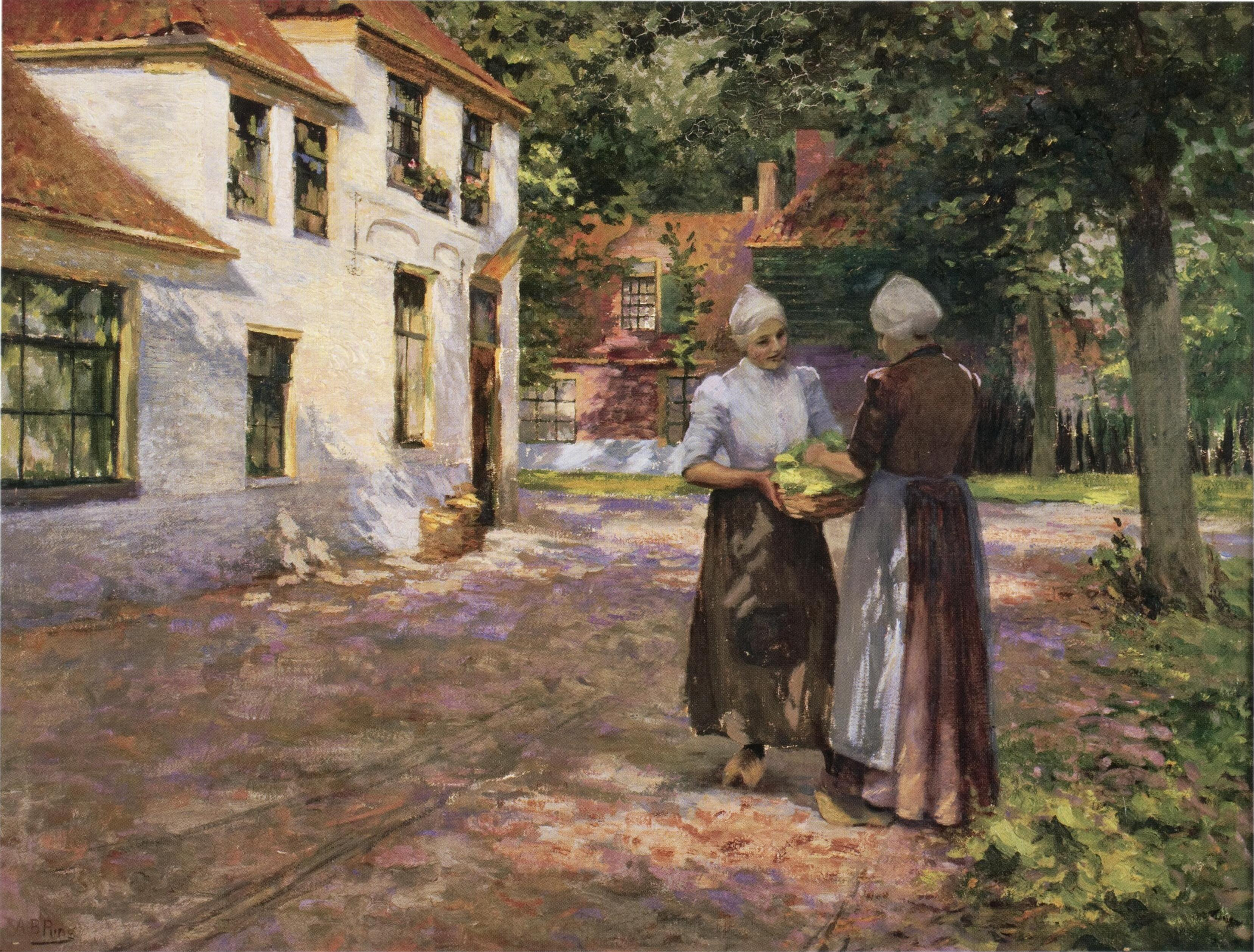 Zonneschijn in de morgen, Egmond, 1906